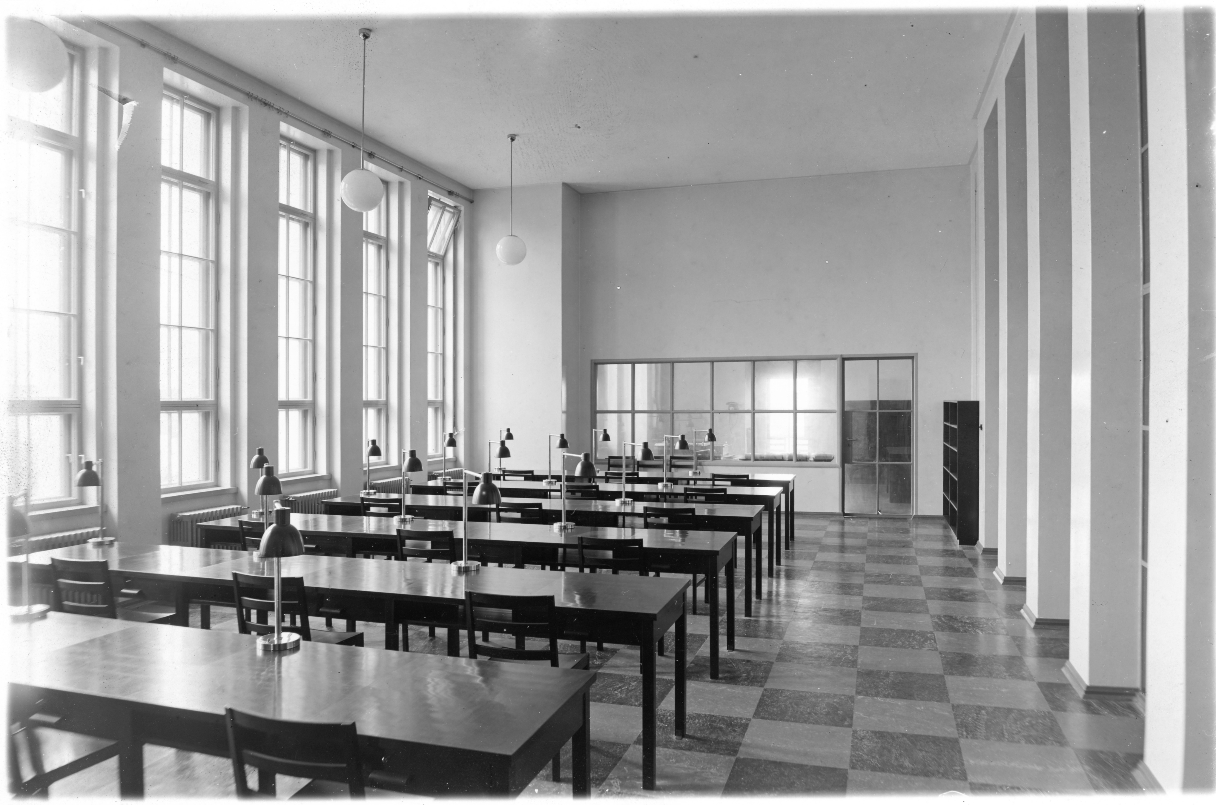 Research hall of the Vyborg Provincial Archives in 1934.